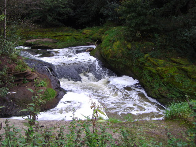 Red Rocks, River Darwen, Hoghton, Lancashire, England. Below the weir are shown a waterfall known as Red Rocks because of the colour of the stone. The water above the weir ran off to provide water for the mills. The water below the weir is a mass of foaming water when flooding because of the angle of the river turning 90 degrees. This could be an historical image as, since the photograph was taken, the weir and its waterfall may not now exist.